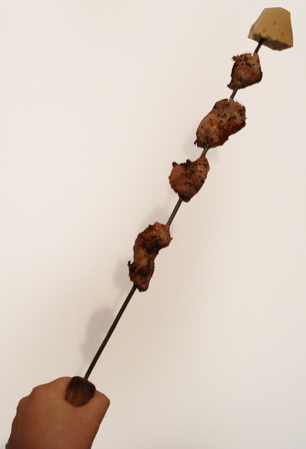 Anticucho chileno.